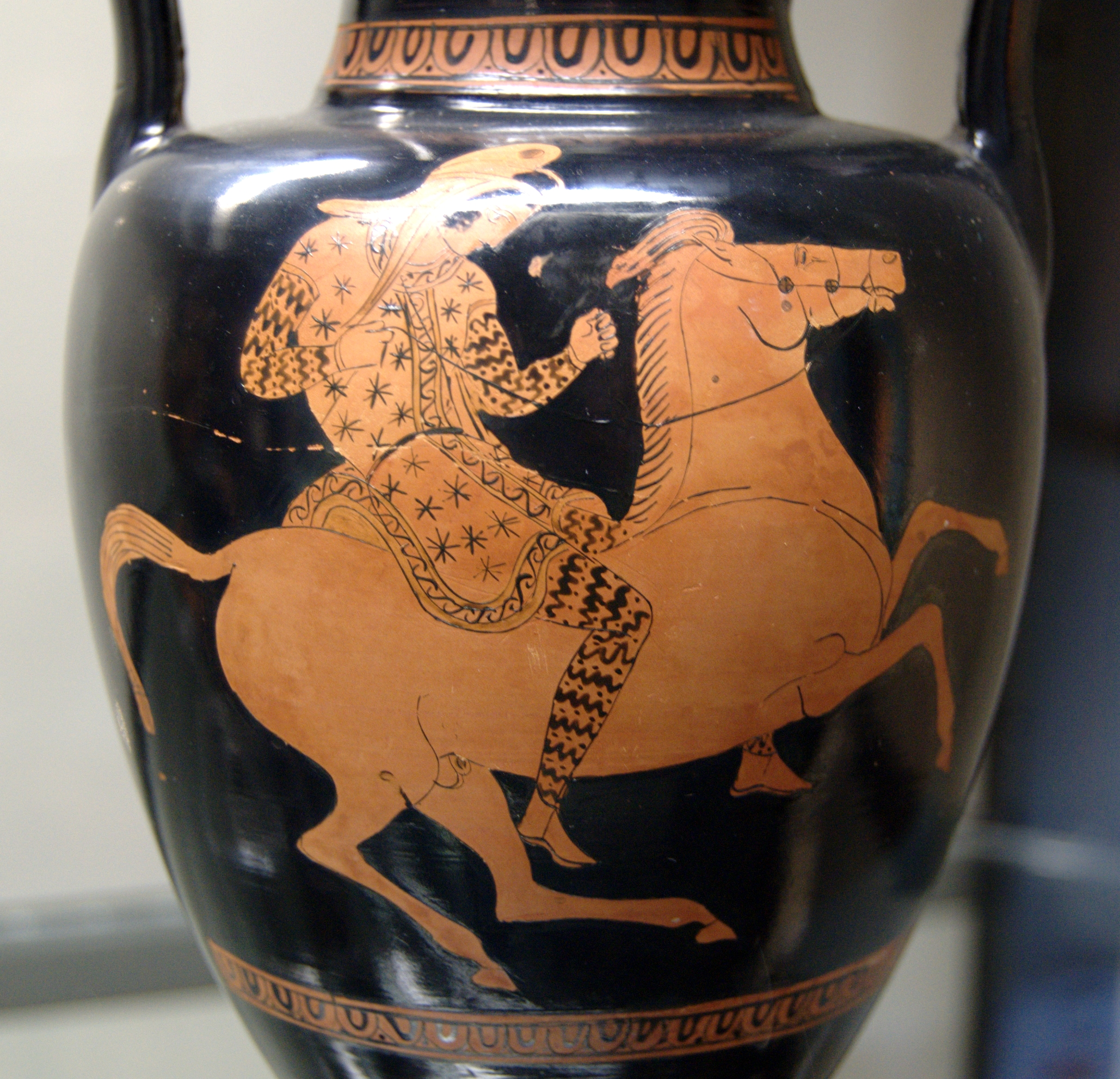 Riding Amazone. Side B of an Attic red-figure neck-amphora, ca. 420 BC.